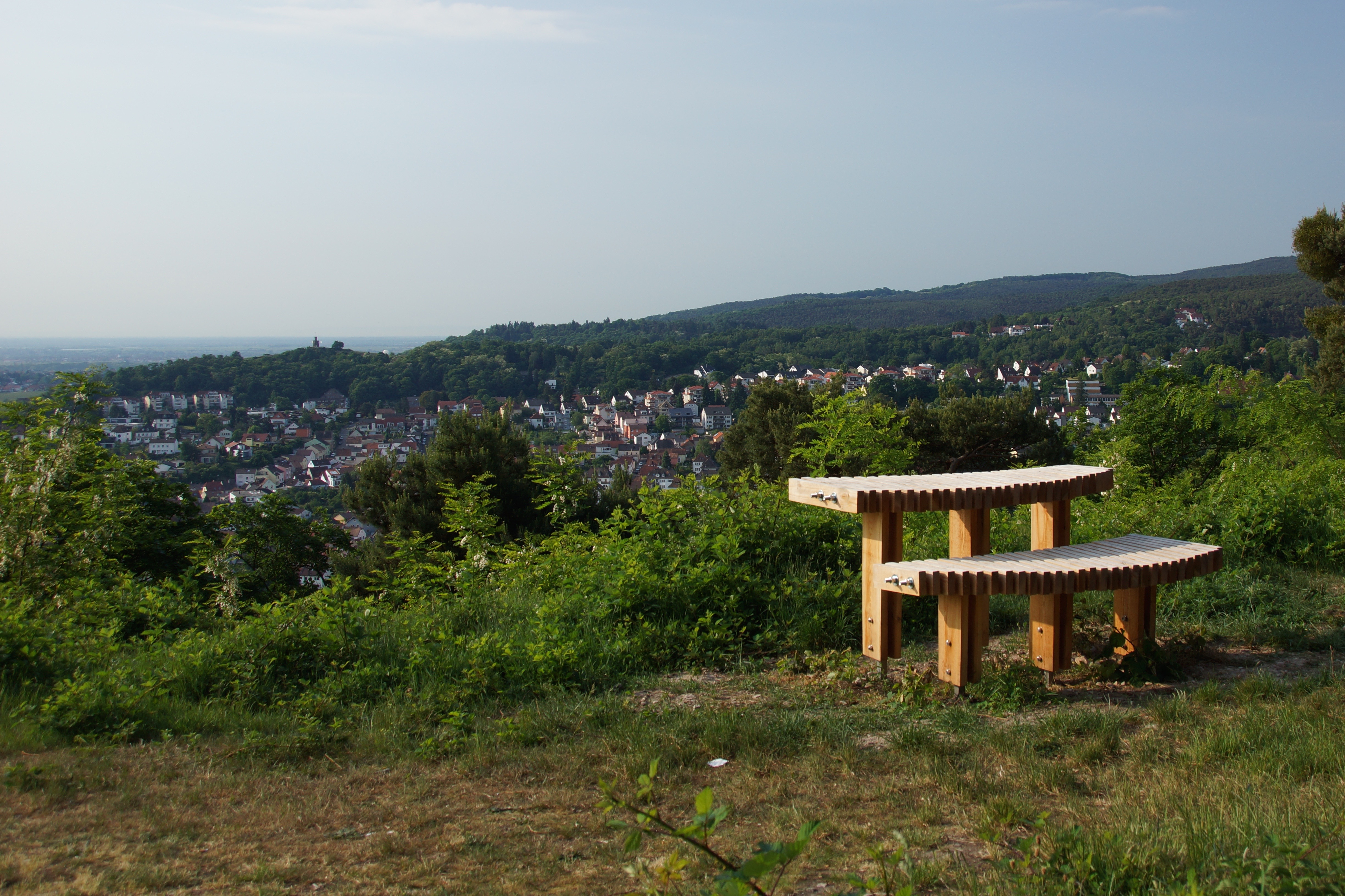 Kriemhildenstuhlview over Bad Duerkheim, Roman stone quarry at Bad Duerkheim, the Palatinate, Germany